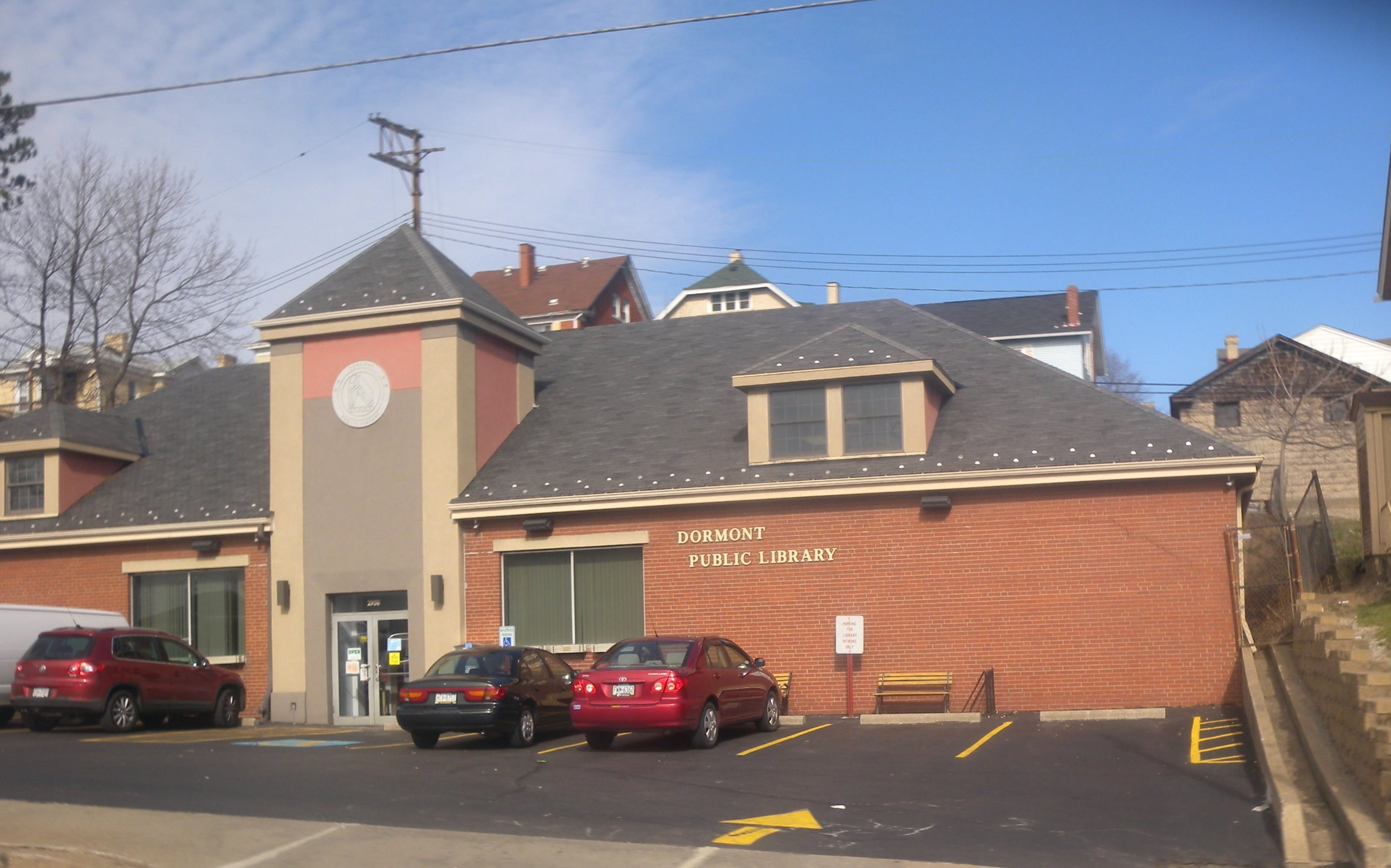 Looking west from 41 bus at Dormont library on a sunny late morning.